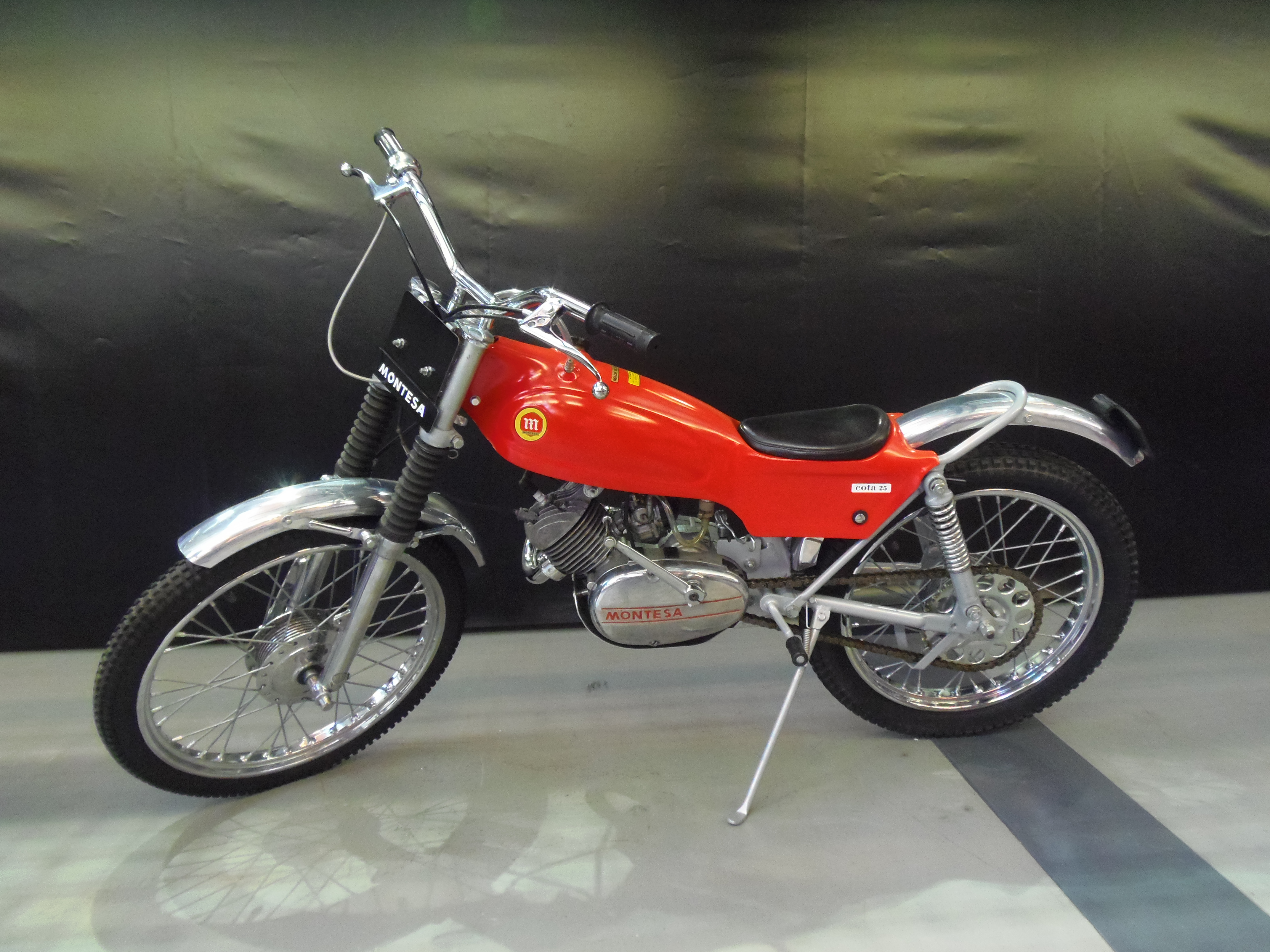 Montesa Cota 25, 1972 (the filename is wrong)